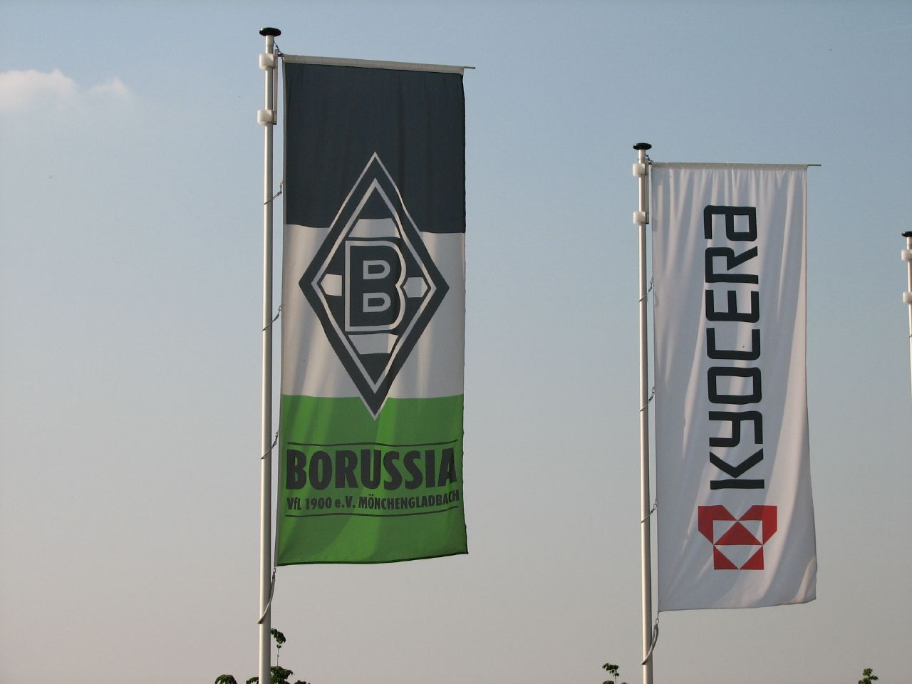 Borussia and Kyocera flags outside Stadion im Borussia-Park in Mönchengladbach